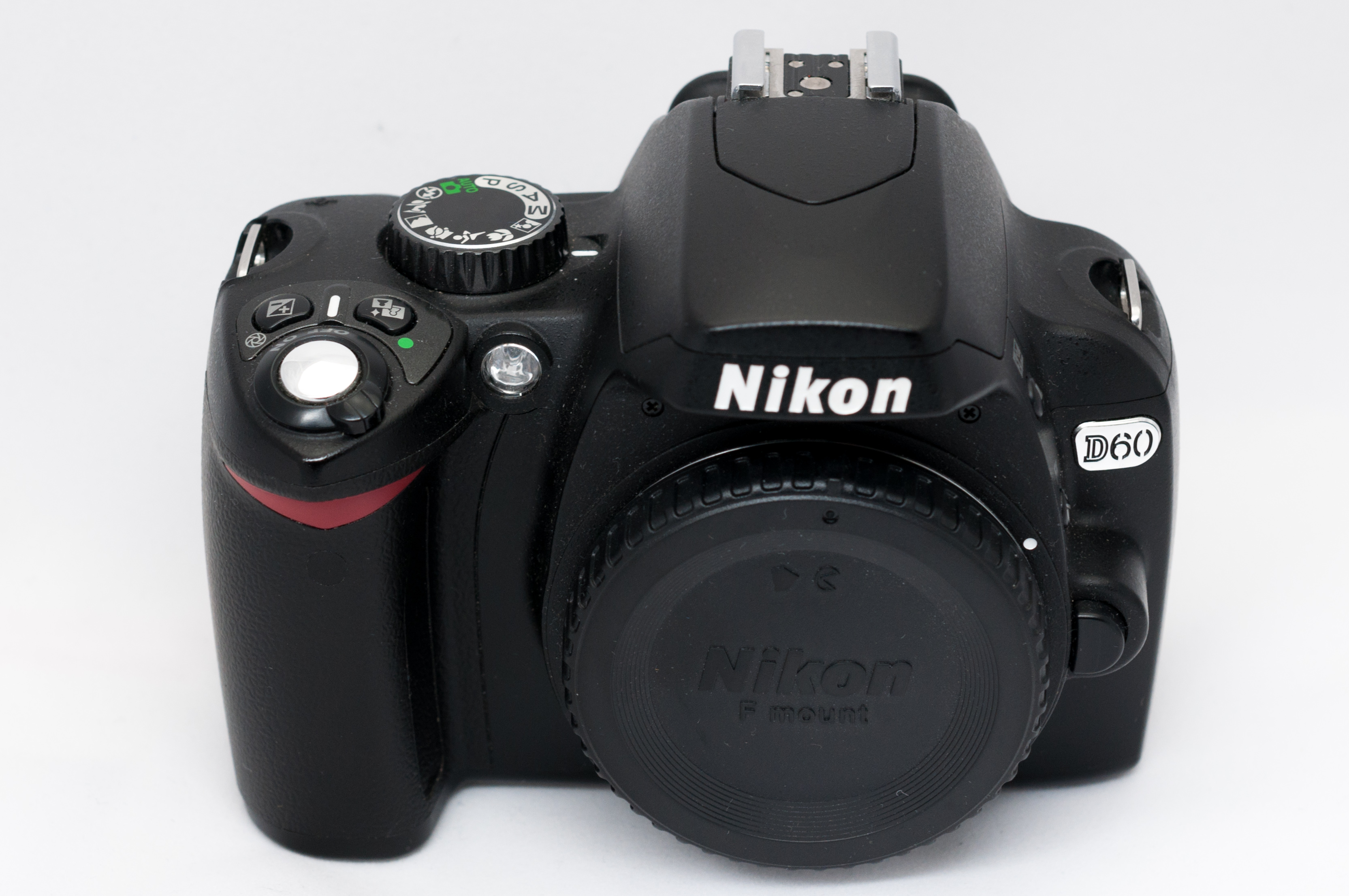 Nikon D60 body